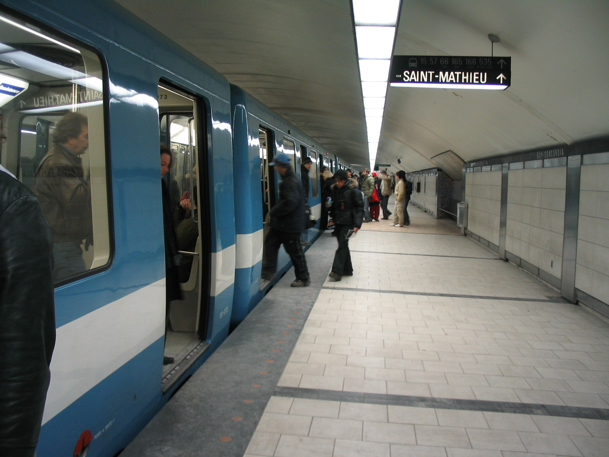 A train at Montreal's undergroundstation "Guy-Concordia"